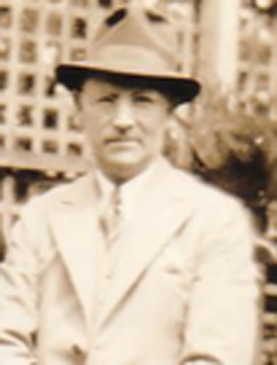 Archibald Adolphus Gregory, owner of Studley Park, Camden between 1933 and 1940